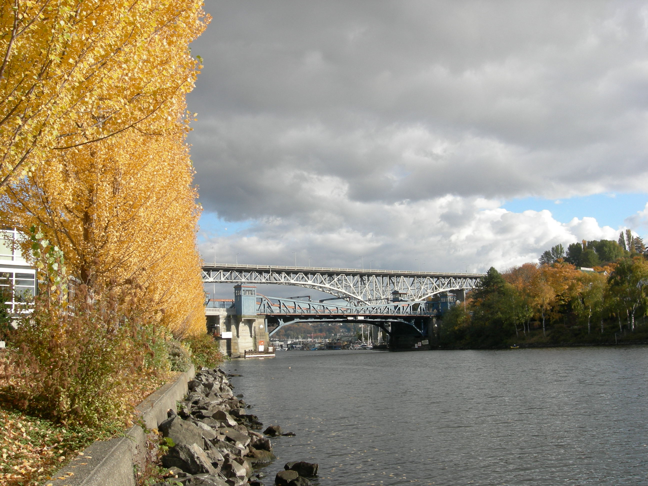 Looking roughly east along the Fremont Cut of the Lake Washington Ship Canal, Seattle, Washington, USA to the Fremont Bridge (low bridge) and Aurora Bridge (high bridge). Both bridges are on the National Register of Historic Places.